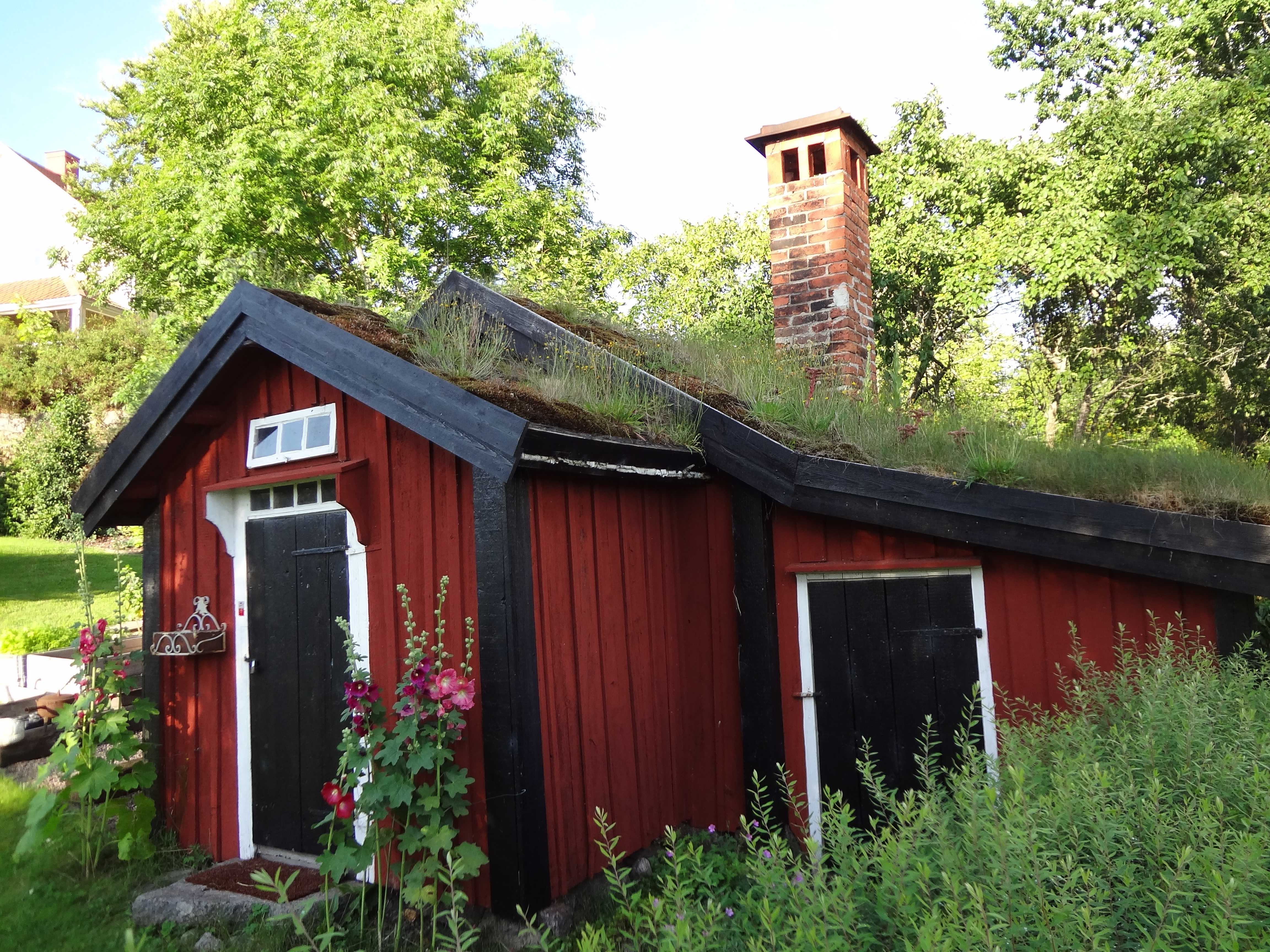 Oldest house in town Askersund i Sweden